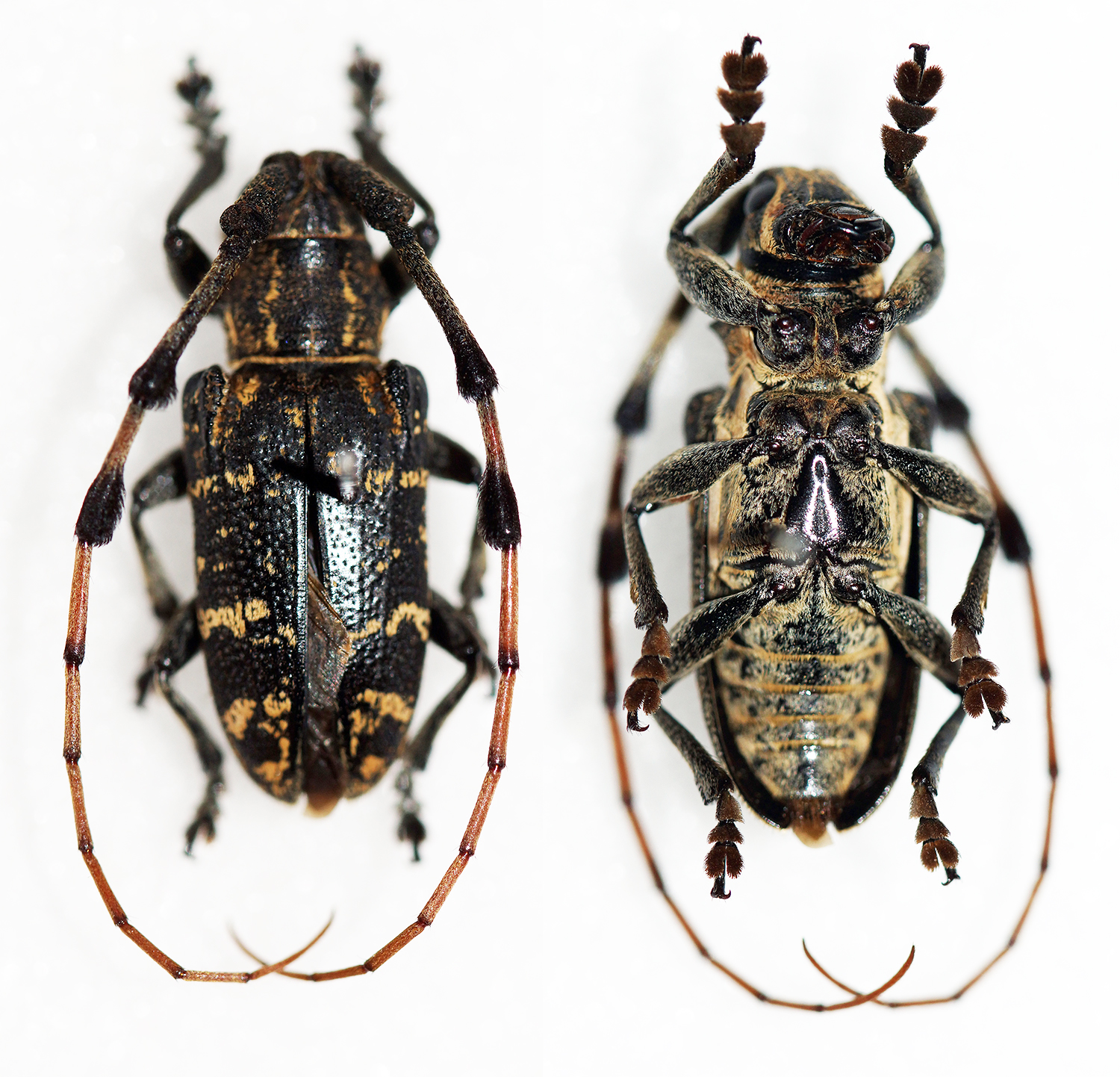 Achthophora humeralis (Heller, 1916) det. F. Vitali, 2018 Sex: Male Data: 07-2013 - Belance - Nueva vizcaya - North Luzon - Philippines Size: 17mm